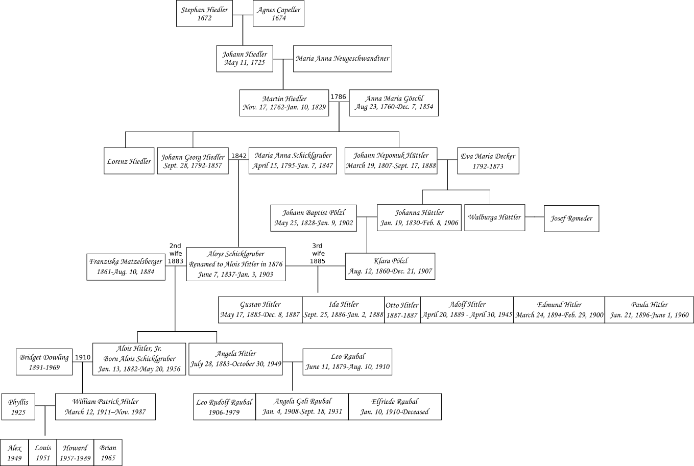 Created in Inkscape, unfortunately I was unable to save in SVG format so I went with PNG. The information contained in the image is derived from multiple sources. This link makes it harder to read with slower or older computers.